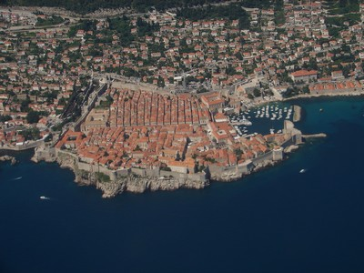 An aerial view of Dubrovnik.